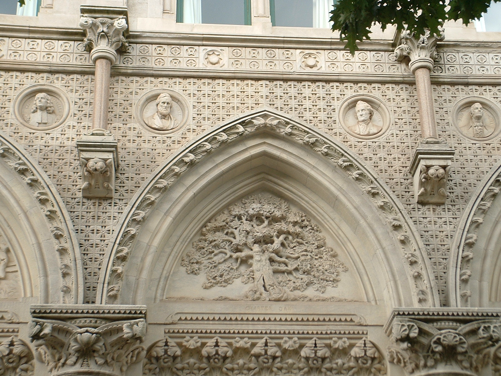 Charter Oak Mural above east entrance, Hartford State Capitol.